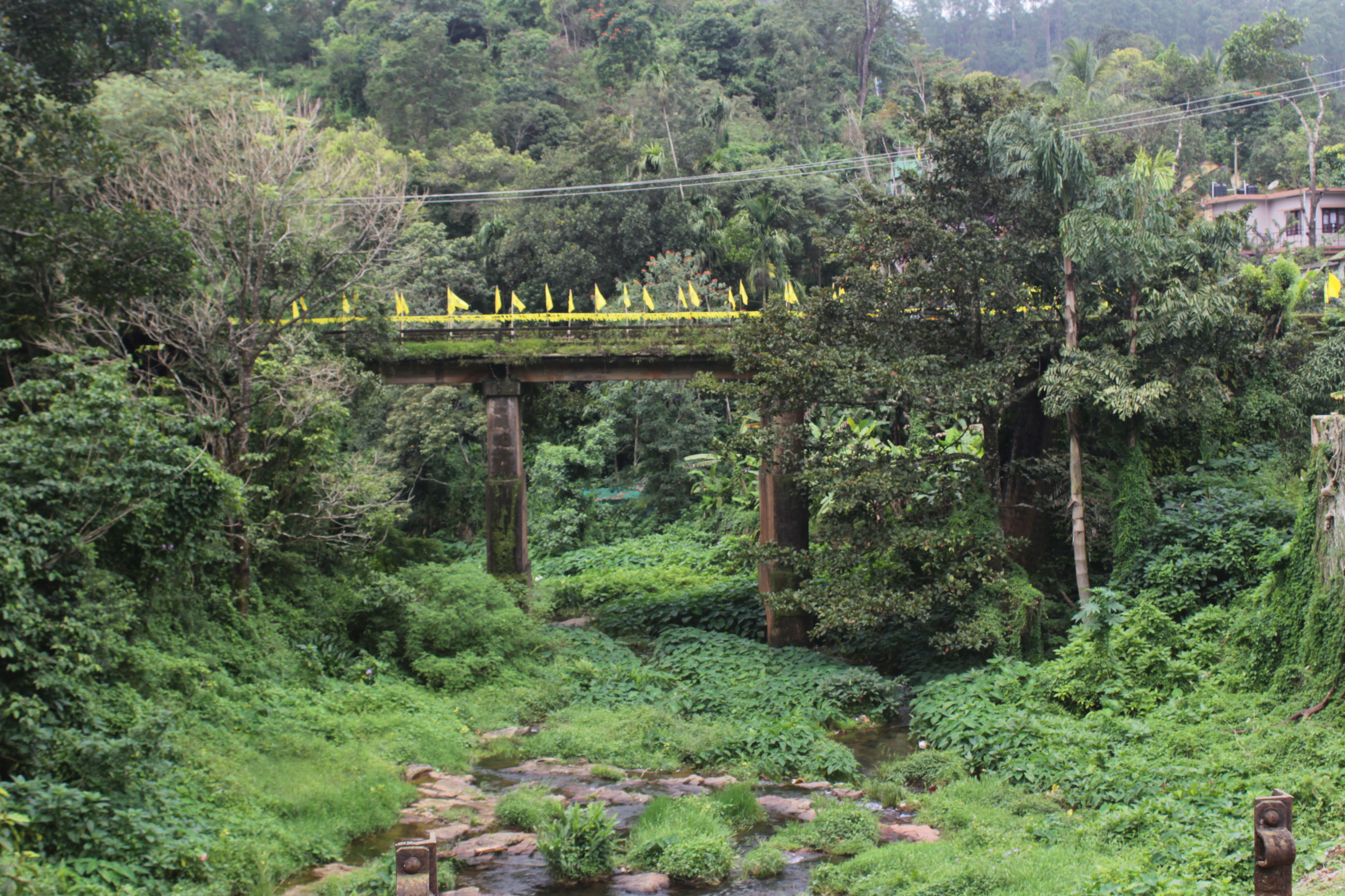 Peerumedu bridge in Kottayam-Kumali Road (Now part of National Highway 183 (India)). A view from old bridge.